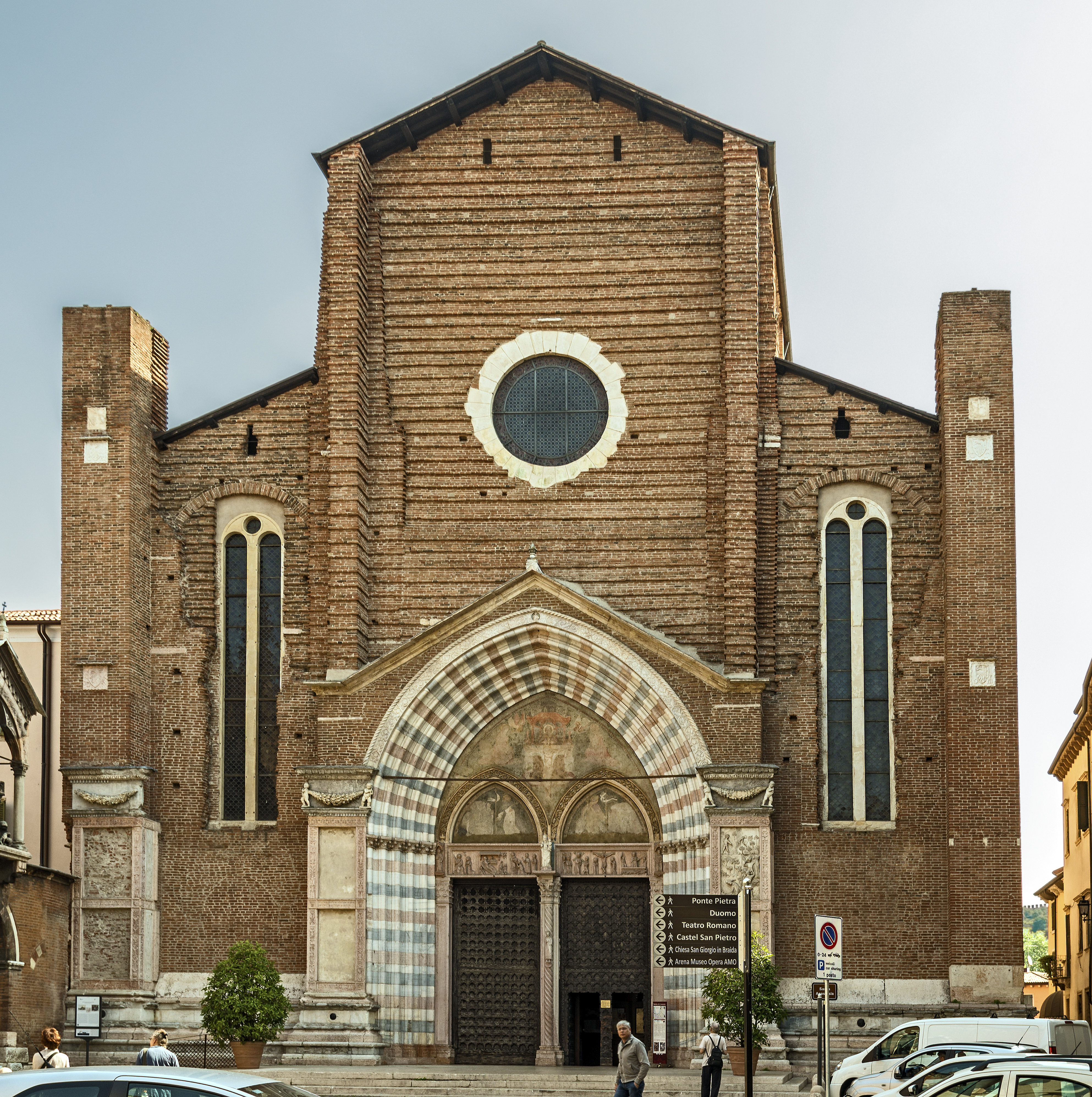 Façade of the Basilica Santa Anastasia Piazza Sant'Anastasia in Verona.